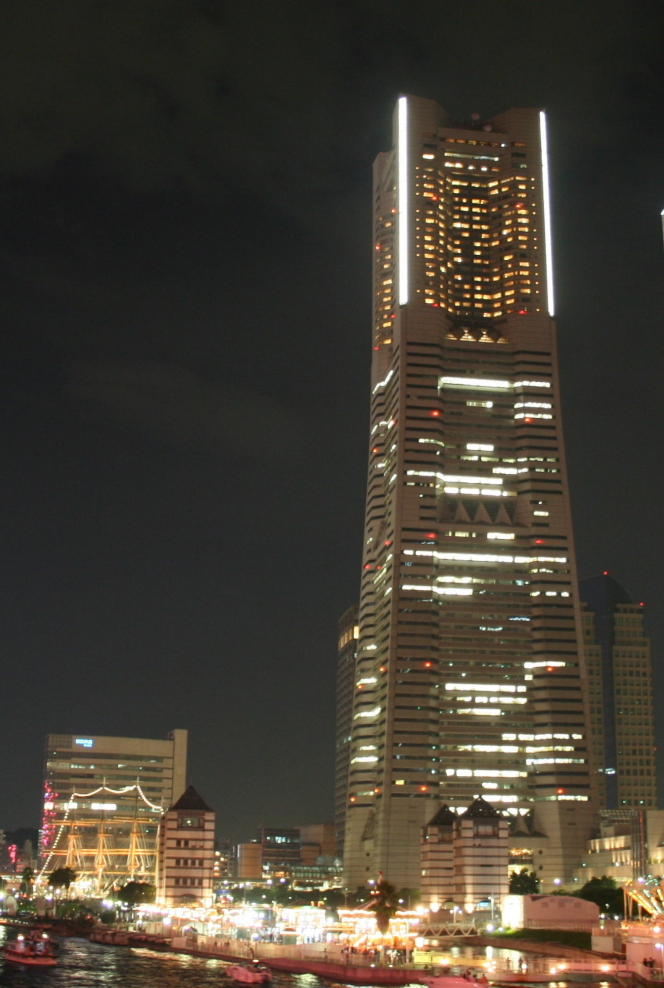 Landmark Tower, Japan's tallest building, at nighttime. Image taken by myself, Eckhard Pecher, on July 16, 2006. (Mention of my name not necessary within the Wikis)